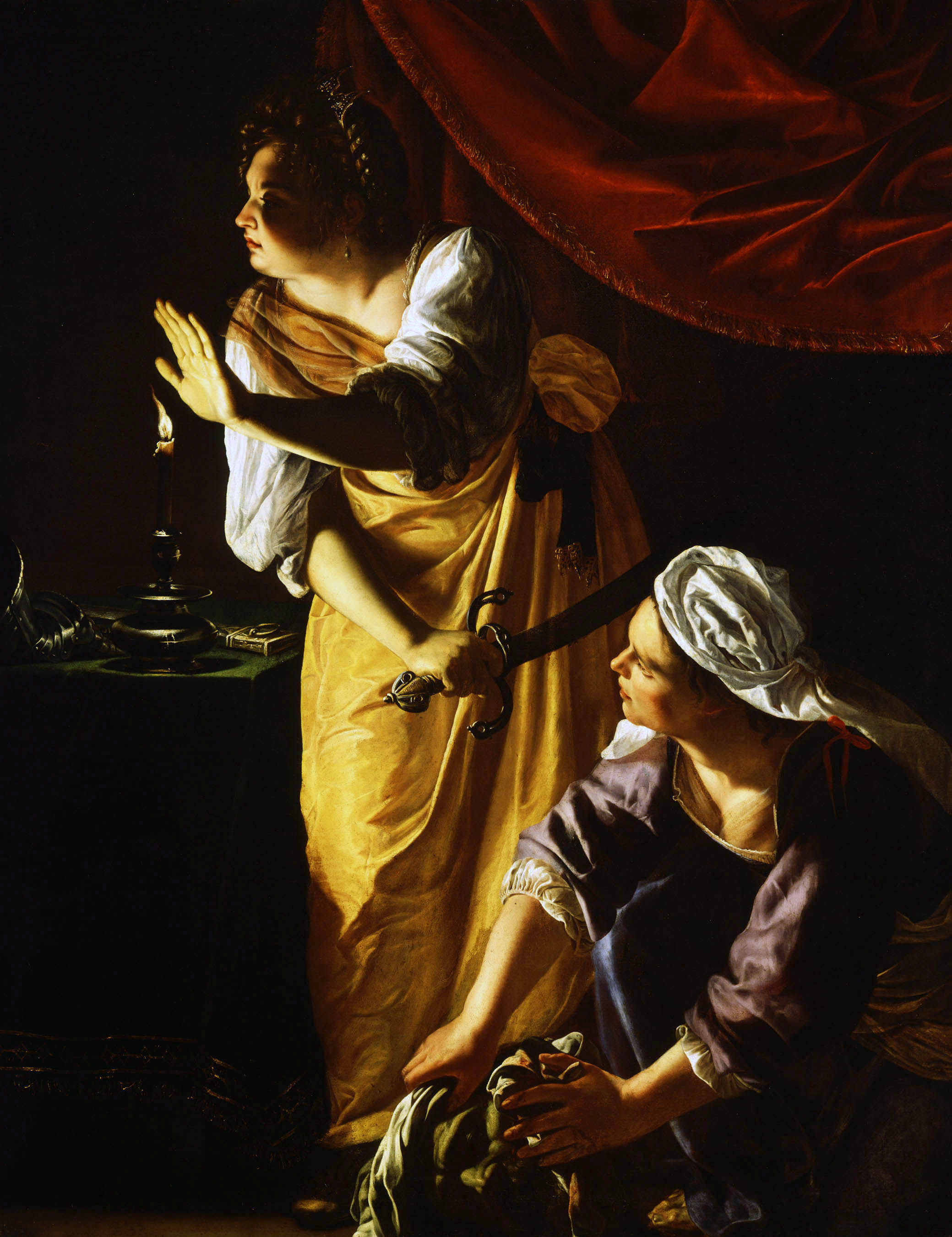 Judith and her servant pause, seeming to hear a noise outside Holofernes’ tent. The shadowy interior is theatrically illuminated by a single candle. Judith’s hand shields her face from the glow, drawing attention to Holofernes’ discarded iron gauntlet. The viewer’s eye travels to the object in the maidservant’s hands: Holofernes’ severed head. (smithsonian)